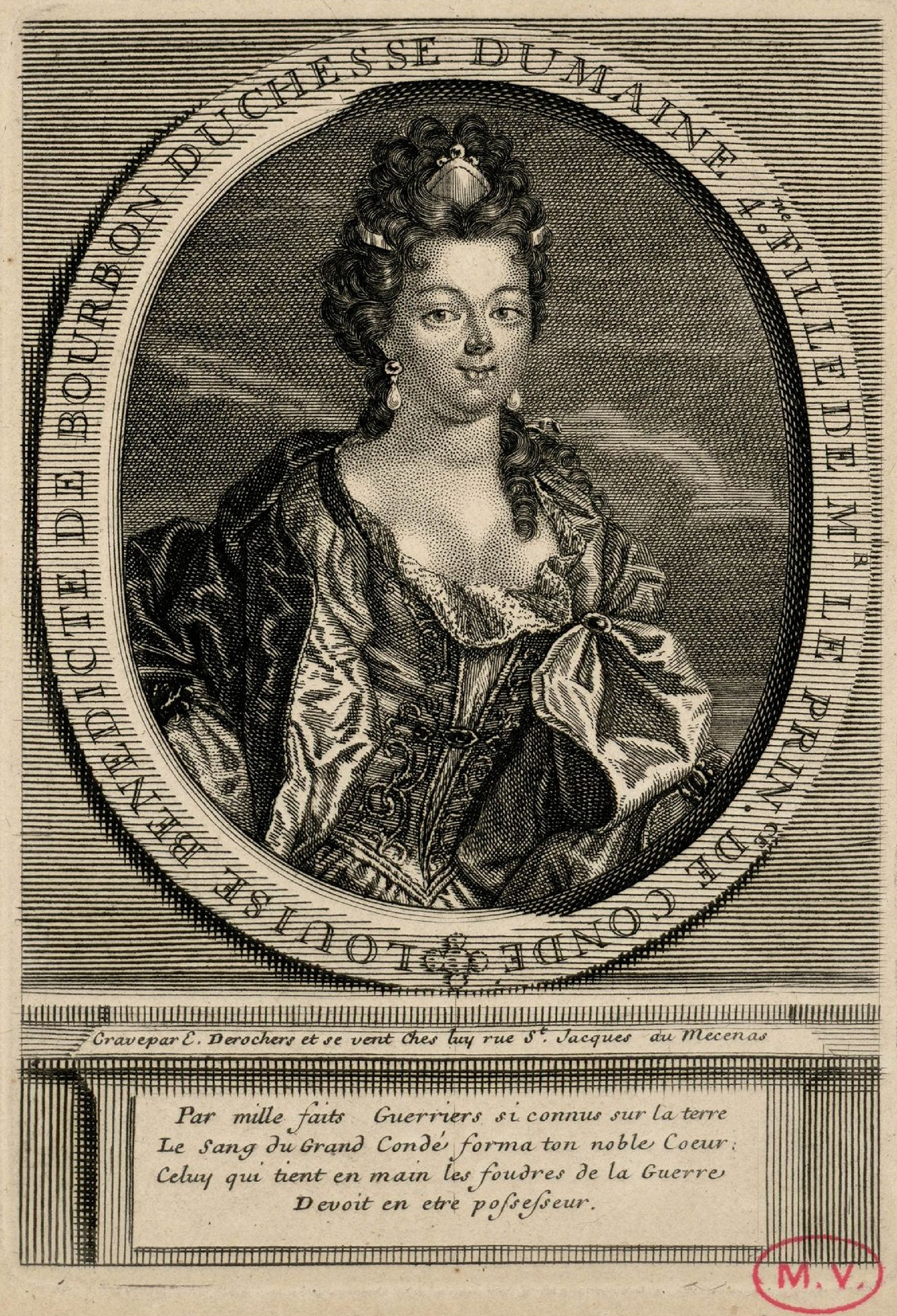 Portrait of la duchesse du Maine (1676-1753), daughter in law of Louis XIV